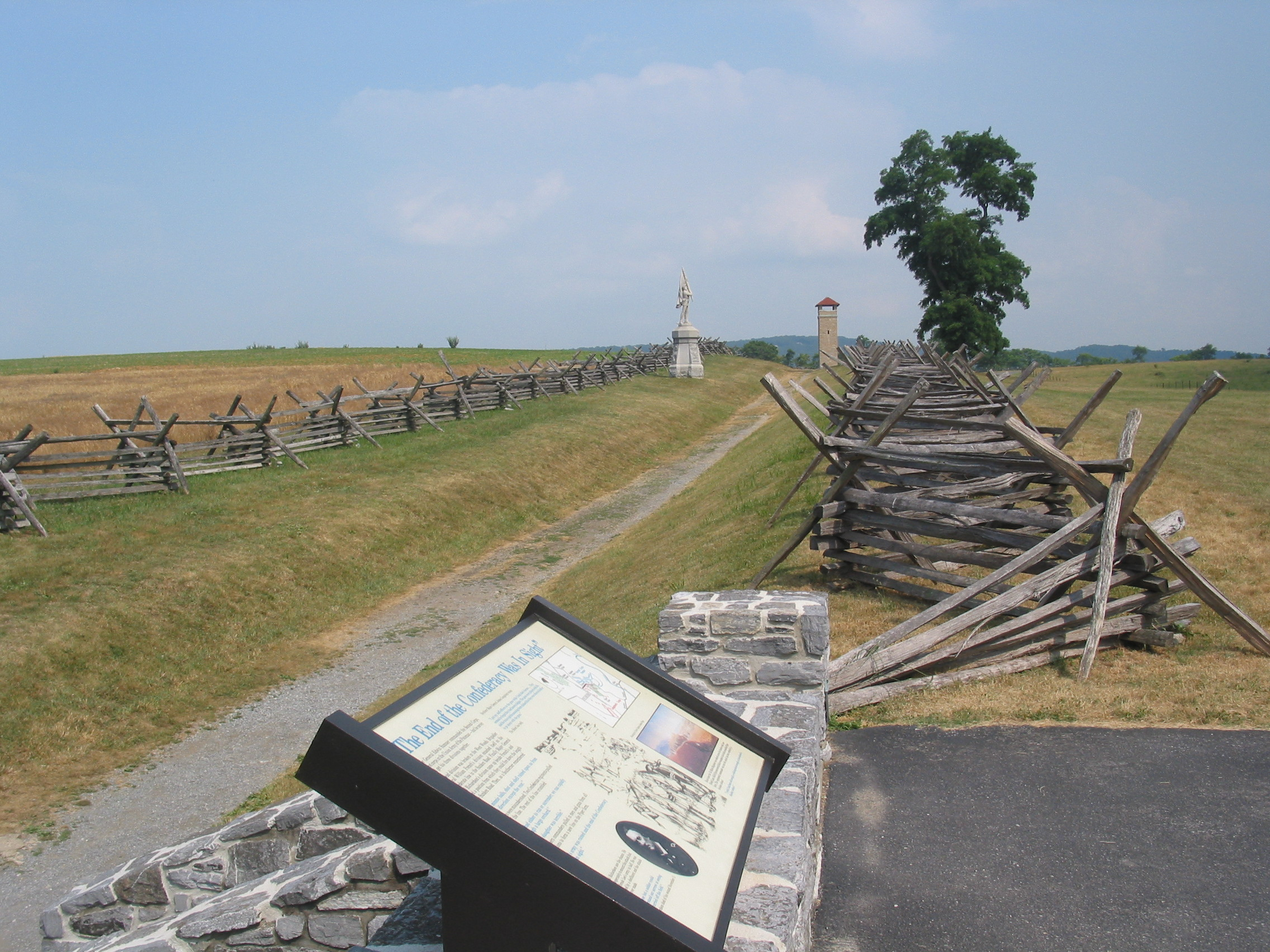 A view down the "Bloody Lane" at the Antietam National Battlefield, in northwestern Maryland.